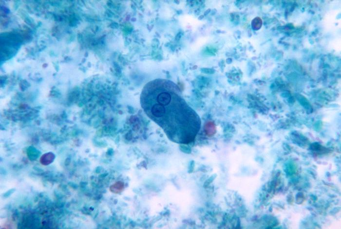 This image is in the public domain and thus free of any copyright restrictions. Courtesy of prep4md